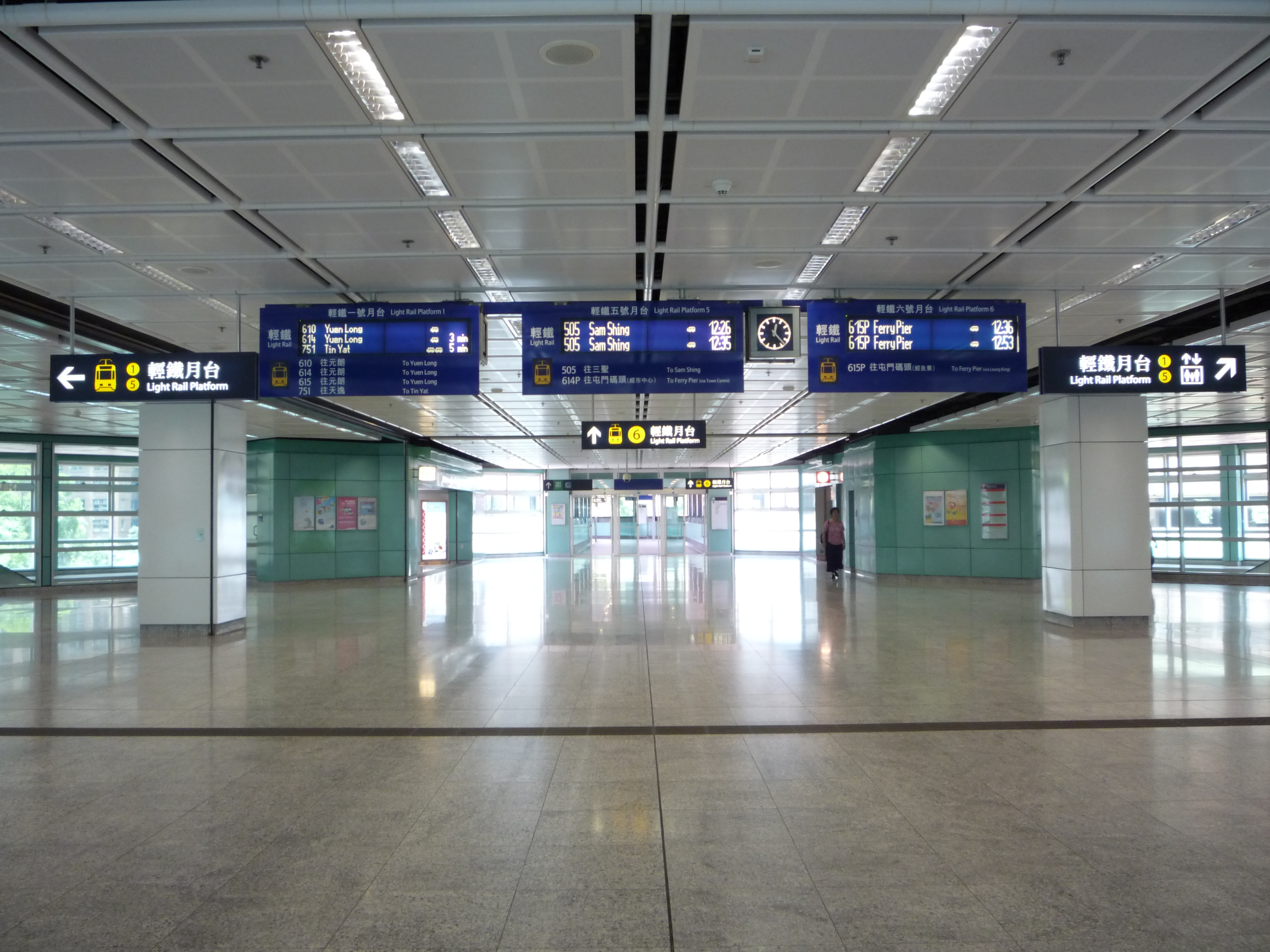 MTR Siu Hong Station concourse Light Rail interchange passageway